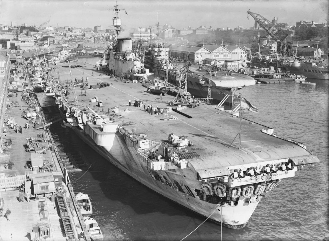 Royal Navy HMS INDEFATIGABLE aircraft carrier at wharf Number 1 Woolloomooloo. At Wharf Numbers 6-9 Woolloomooloo can be seen two other Royal Navy large fleet aircraft carriers Dated: c.1946 Digital ID: 9856_a017000285 Rights: We'd love to hear from you if you use our photos. Many other photos in our collection are available to view and browse on our website using Photo Investigator.